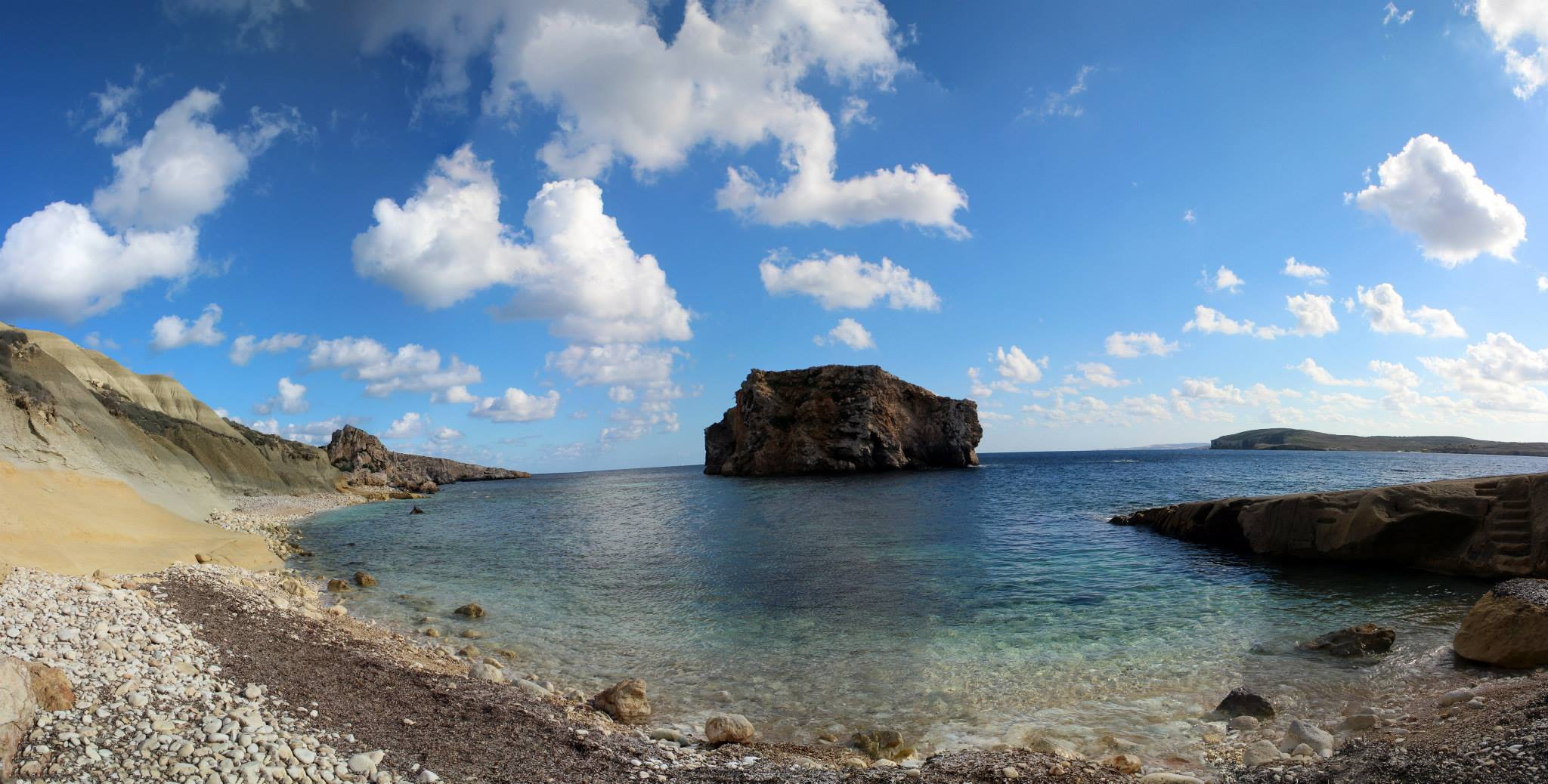 View of Ġebla tal-Ħalfa